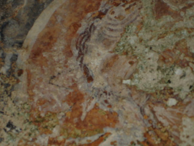 Fresco of Grotta di Sant'Angelo